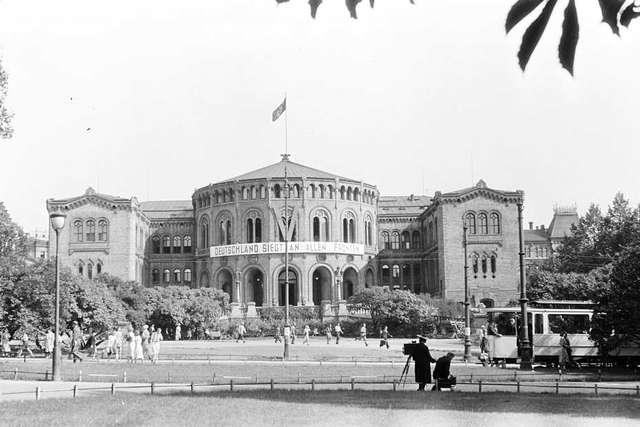 The Parliament of Norway Building under Nazi occupation during the Second World War. Swastika flag flying, the slogan Deutschland siegt an allen Fronten (Germany is victorious on all fronts) and the German V sign on the front of the building. See also: File:Deutschland siegt an allen Fronten på Stortingsbygningen, 1940-1945, OB.F19149c.jpg File:Strortinget under krigen med tysk propaganda.jpg File:Tyskernes innmarsj,1940.jpg File:Location «Max Manus», Stortinget.jpg File:MaxManusSH.JPG